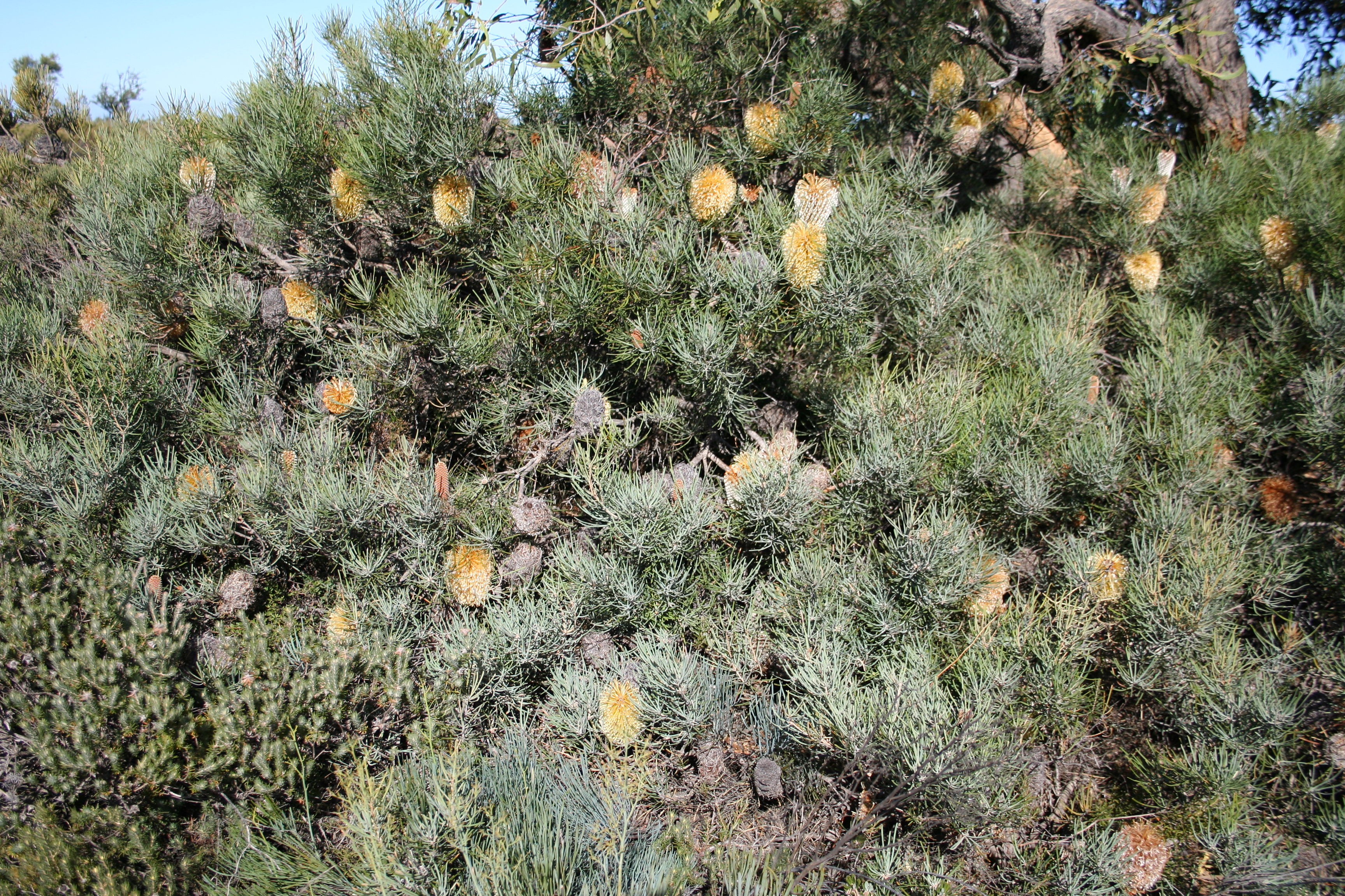 Banksia grossa (habit), Lara Downs